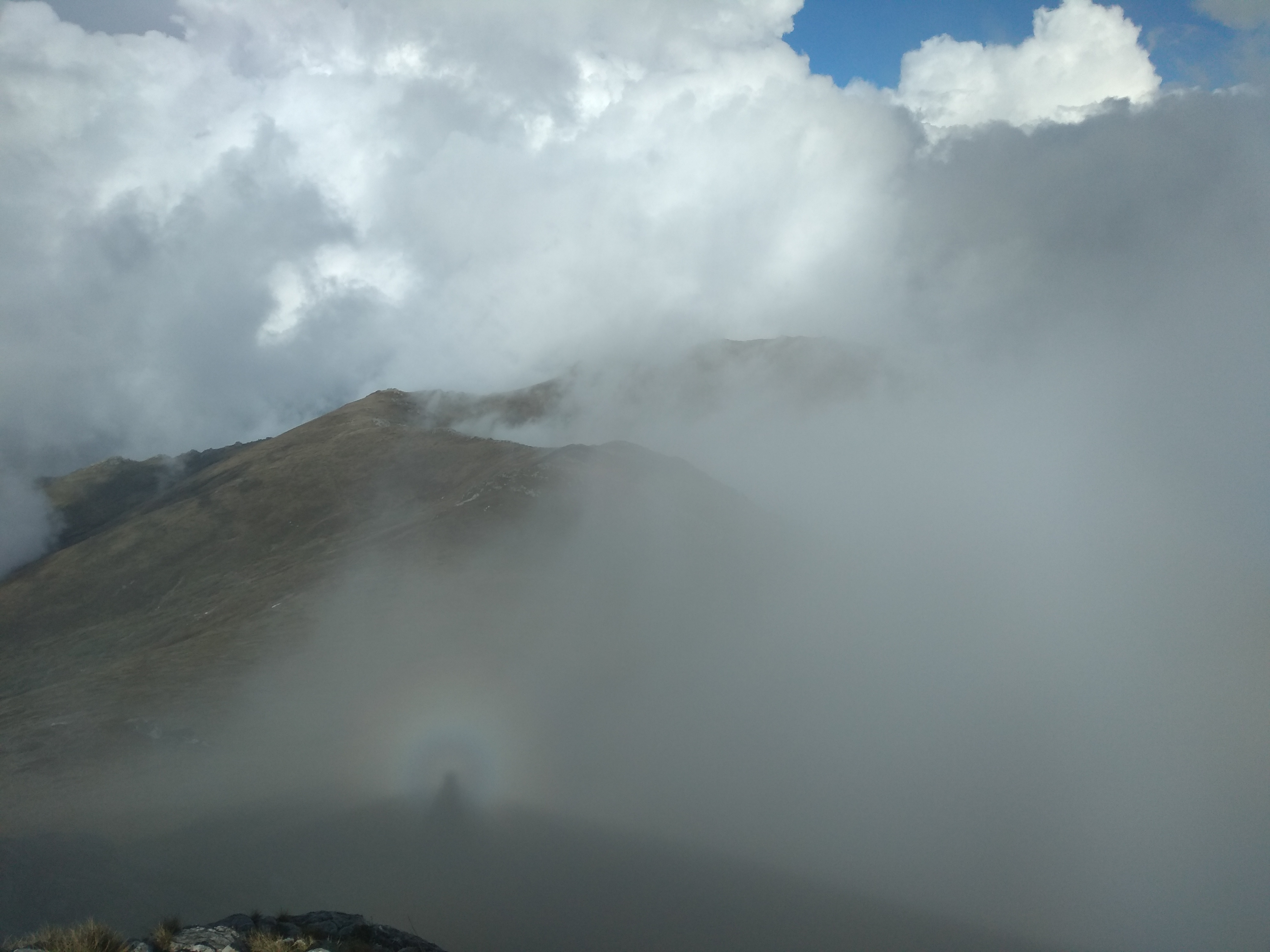 Glory (optical phenomena) on Dautica mountain in North Macedonia